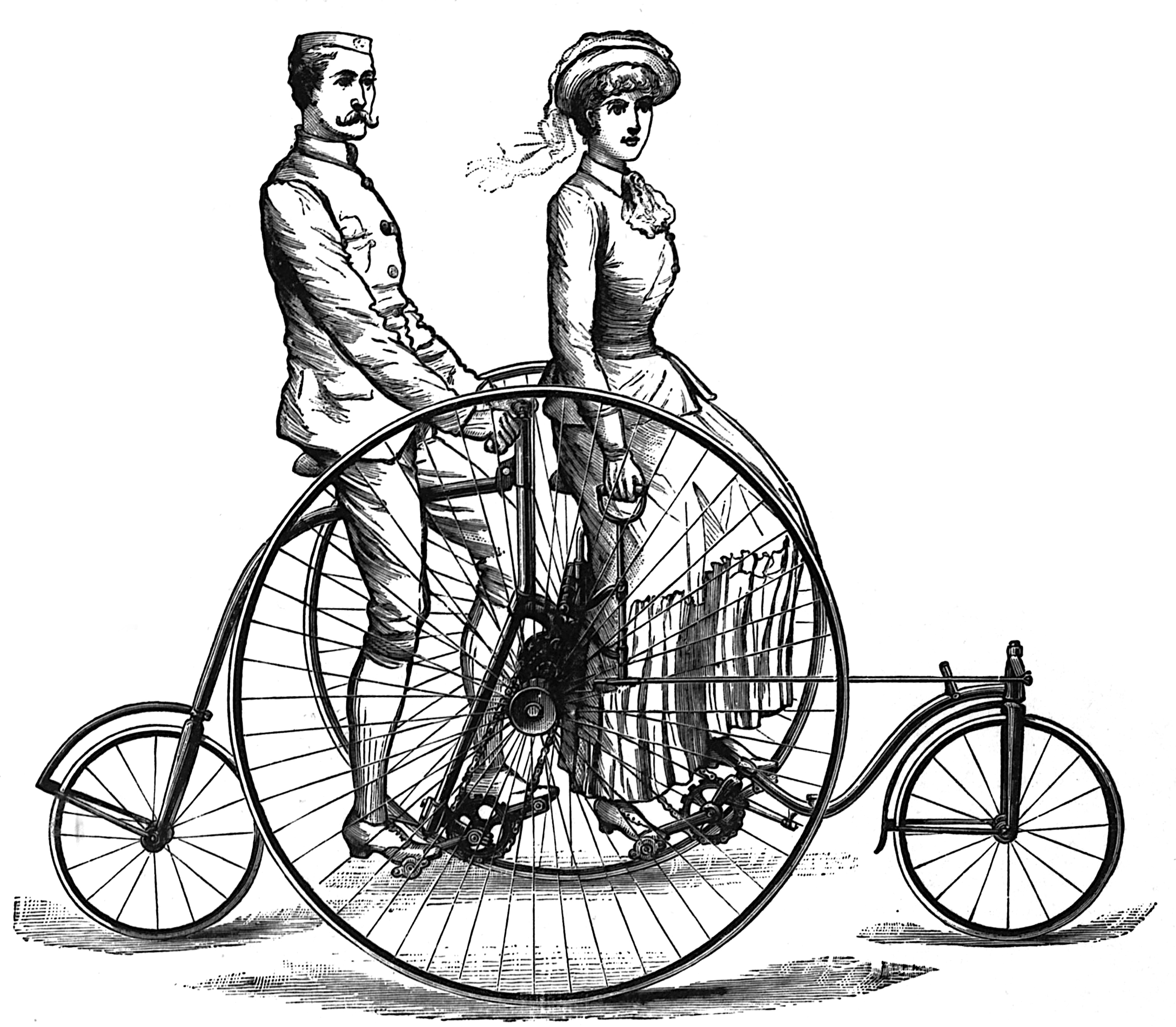 Tandem quadricycle from an 1885 catalogue